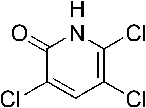 chemical structure of TCPy (trichloropyridinol)